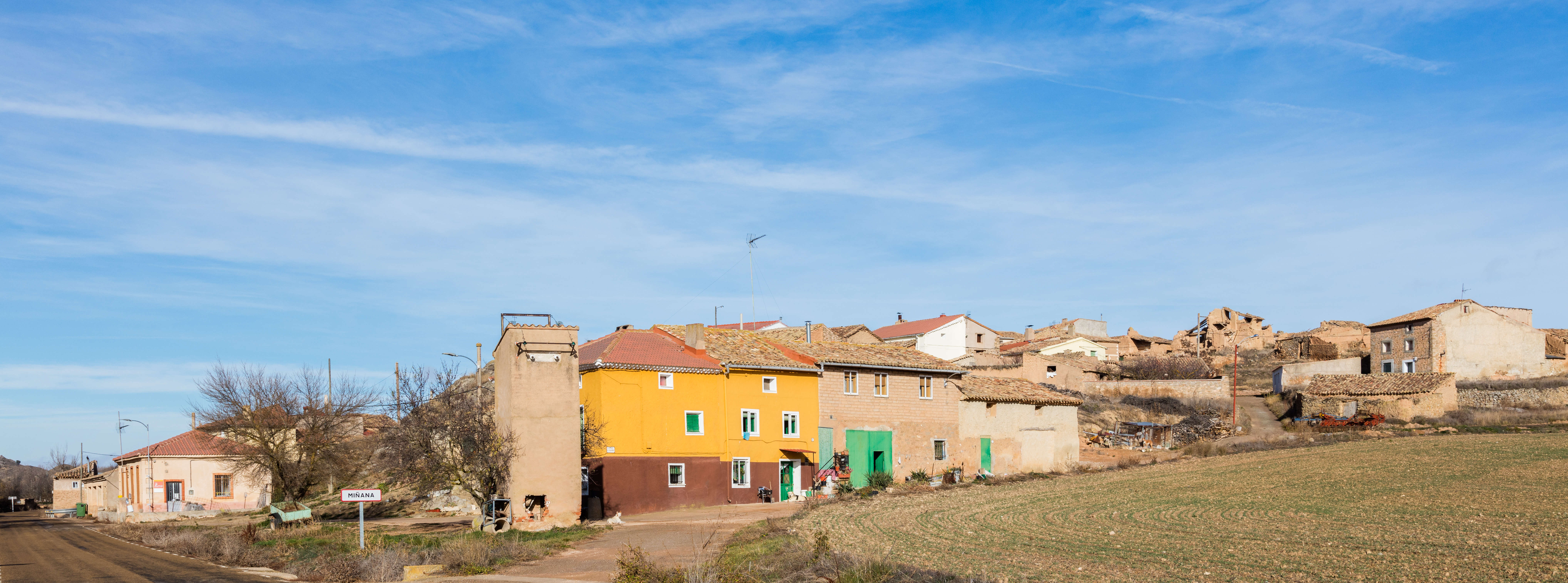 Miñana, Soria, Spain